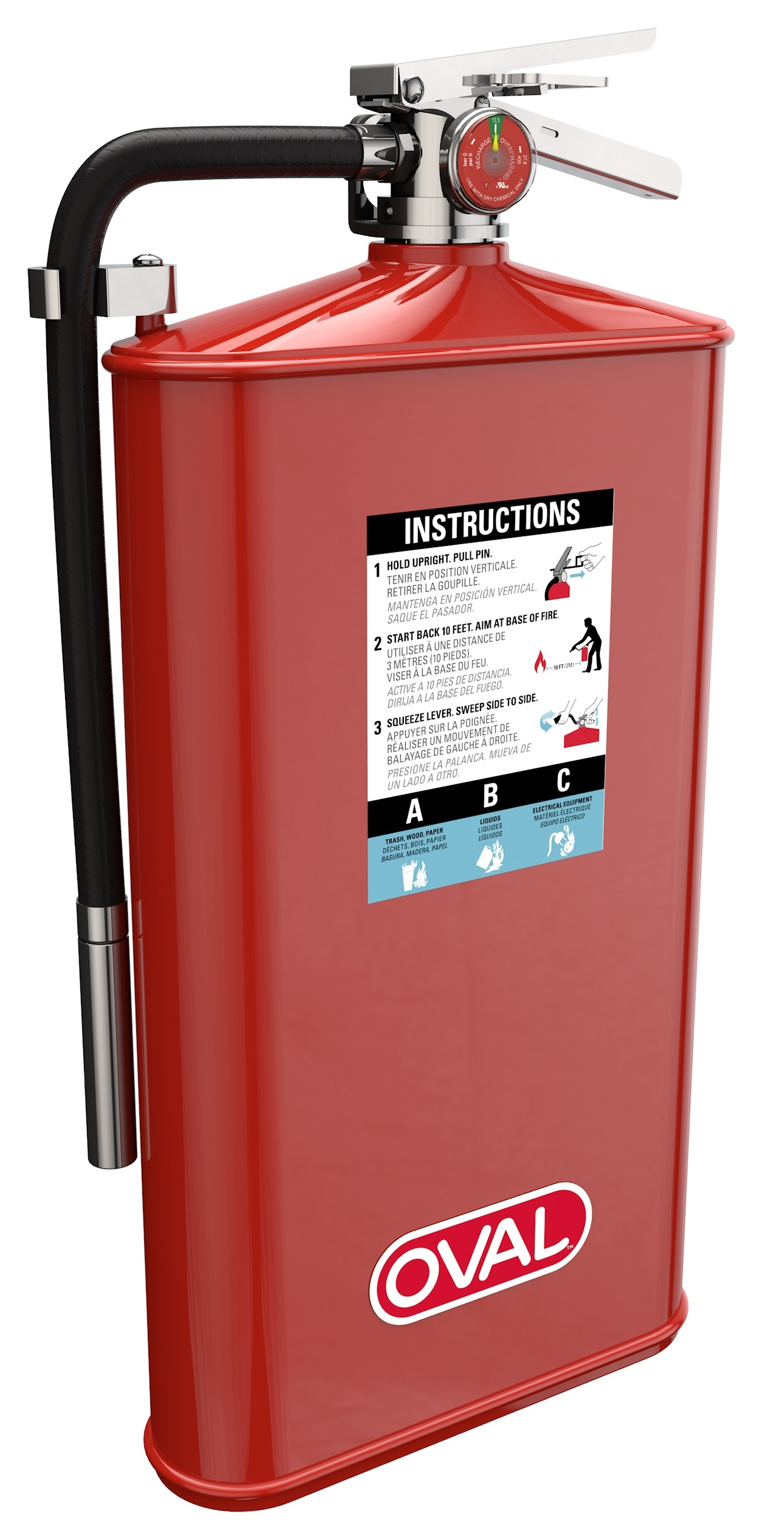 Fire extinguisher, stored pressure type ABC 10 lb model as manufactured by Oval Fire Products